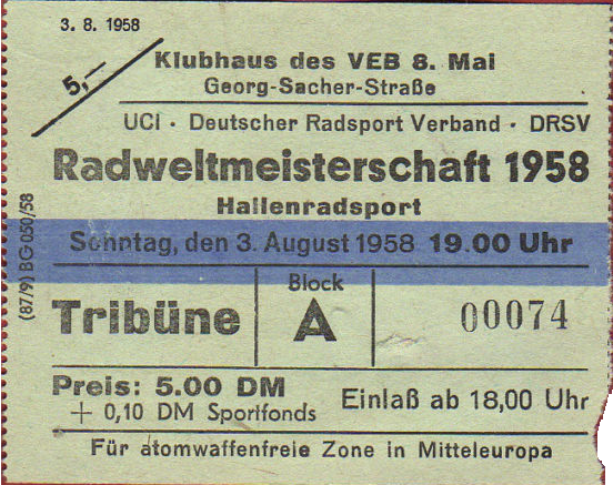 1958 UCI Road World Championships ticket